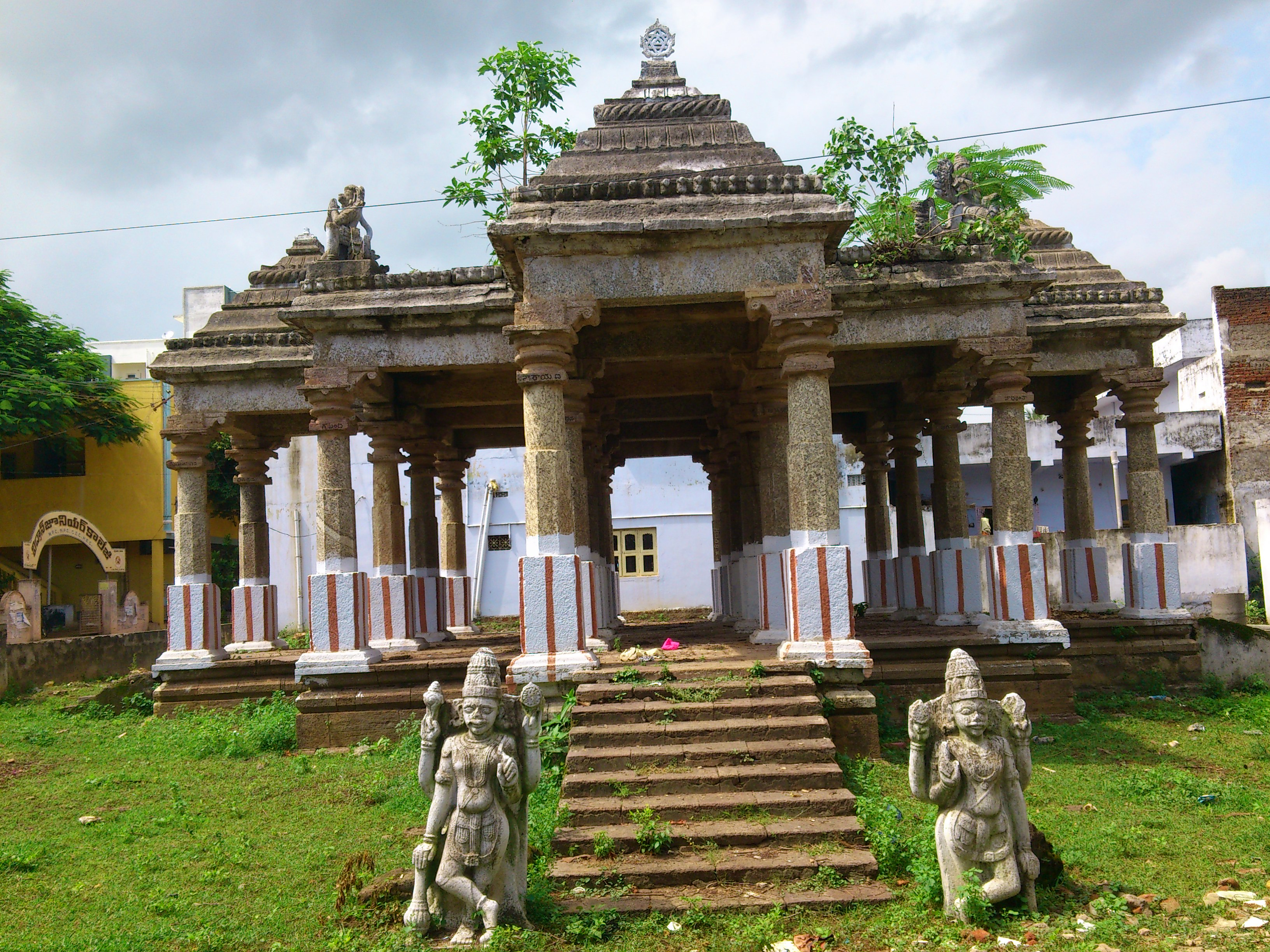 This construction is located in Bobilli,Andhra Pradesh.